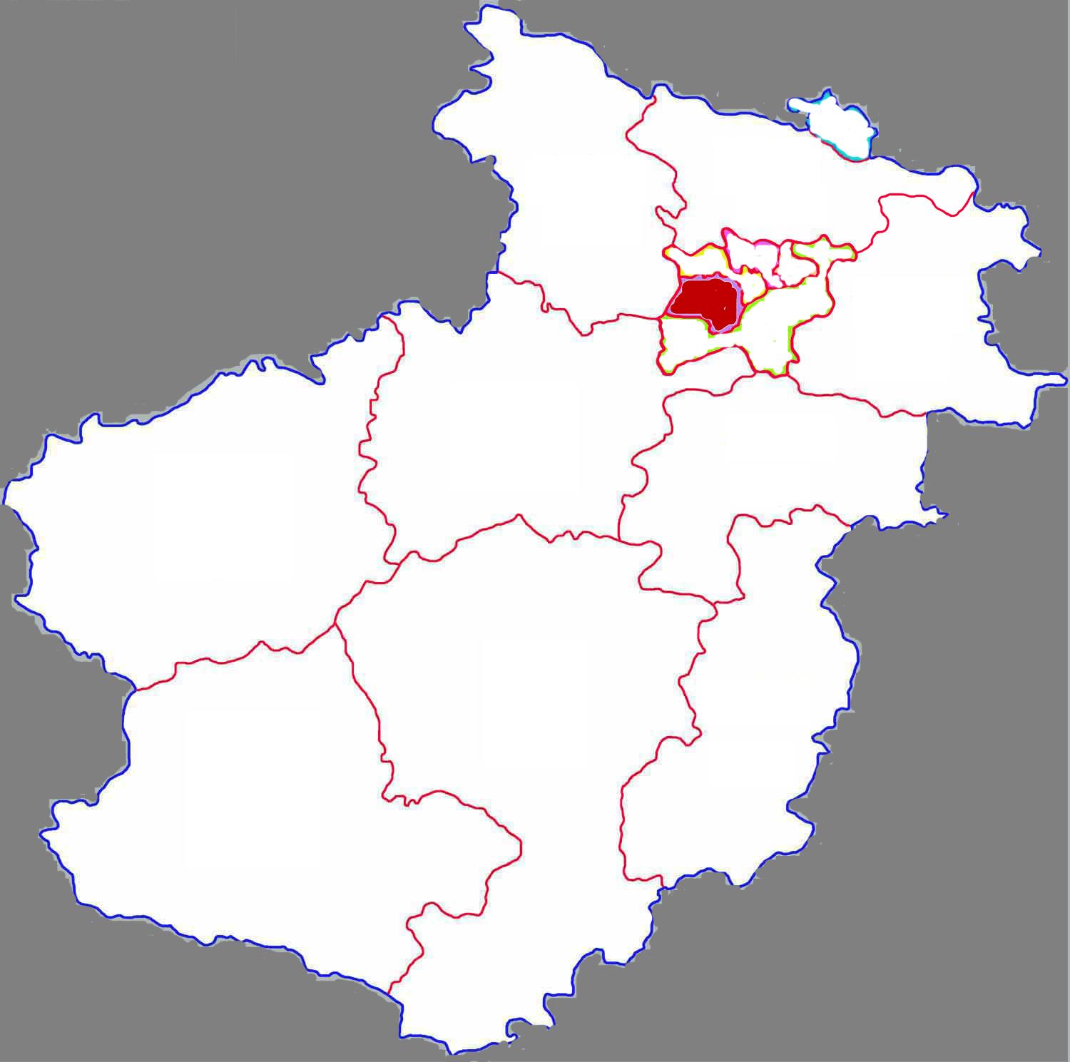 Location of Jianxi district in Luoyang city, China